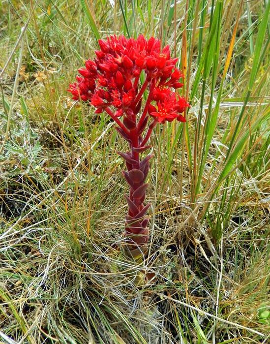 Rosularia sempervivoides found in Lanjanist mountains